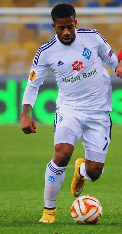 Jeremain Lens